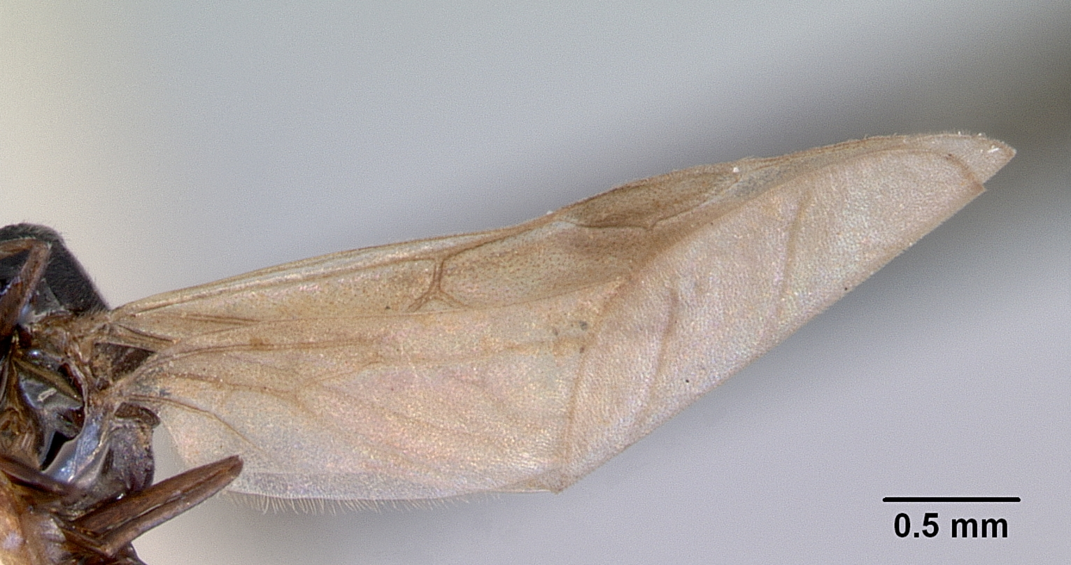 Profile view of ant Doleromyrma darwiniana specimen casent0172369.